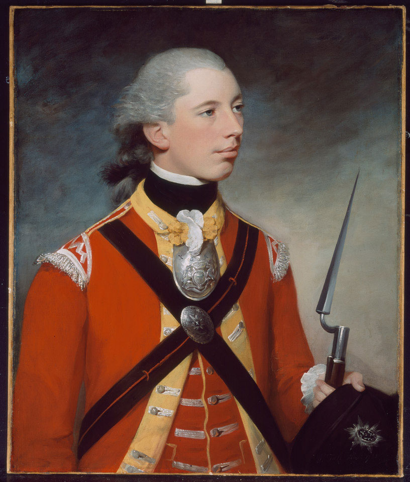 As a mark of his status as an officer, Hewitt wears a silver gorget around his neck. The 'wings' on the shoulders of his uniform distinguish him as a member of a light company; his light infantry cap is held in his left hand. He carries a fusil or light musket - a weapon frequently carried by light company officers which was usually privately purchased. Portraits of officers carrying such a weapon are rare.